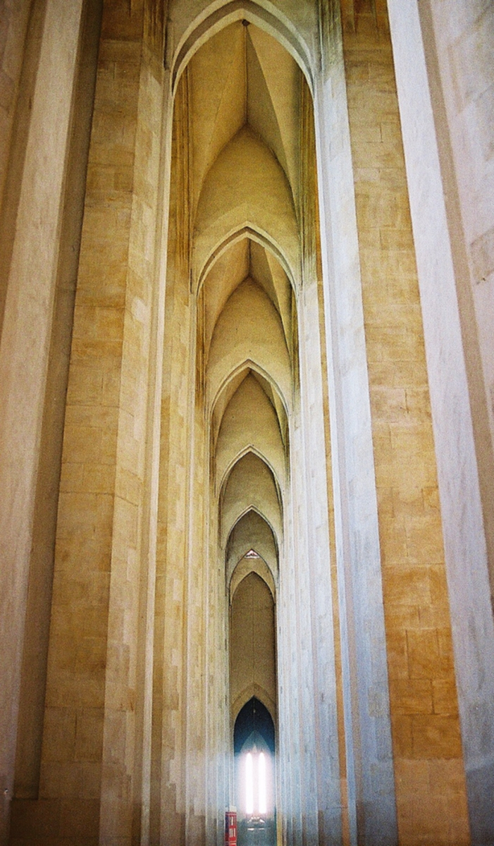 Guildford Cathedral: The vaulting of the South Nave side aisle, looking west towards the baptistery.